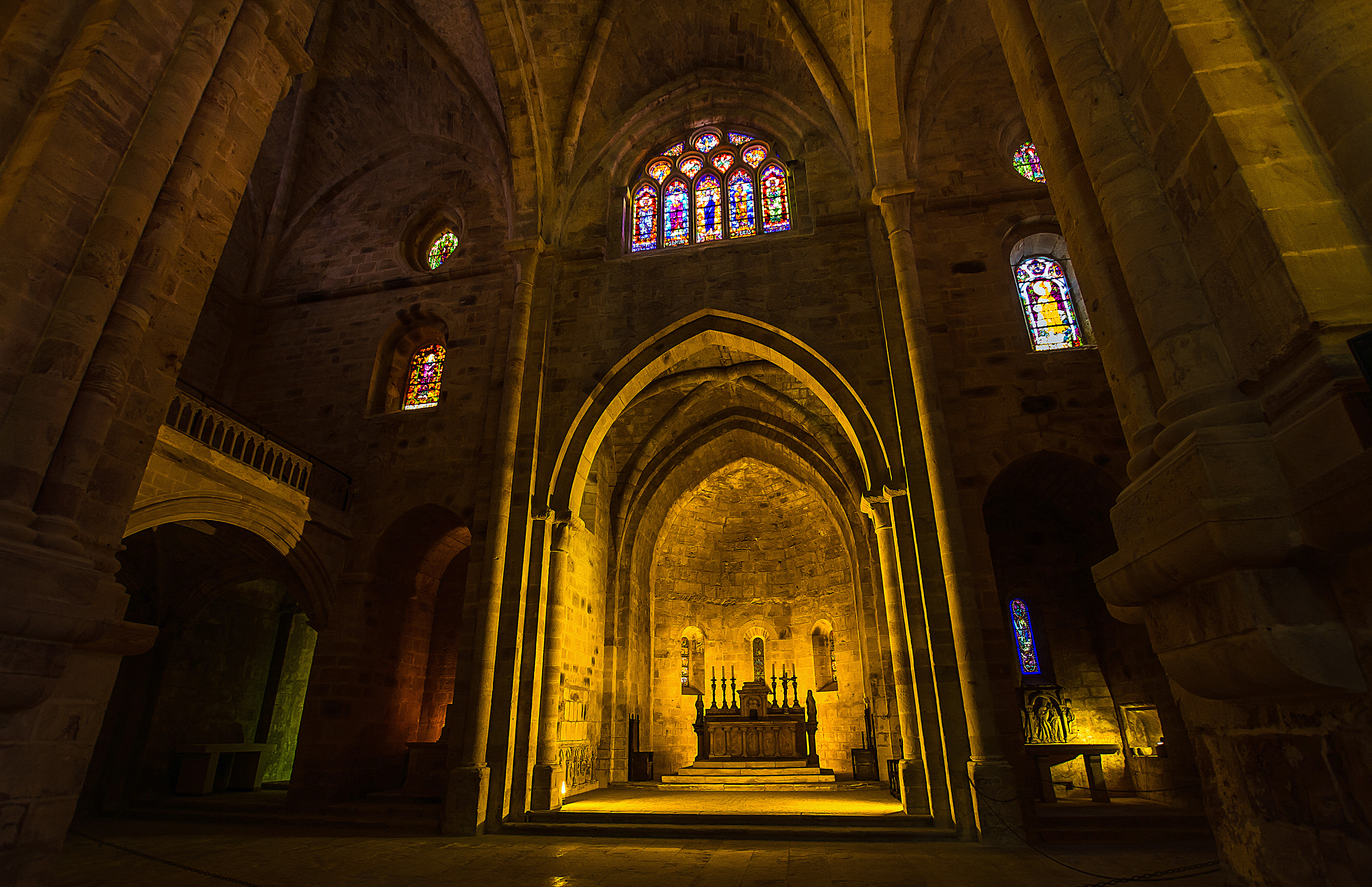 La nef!